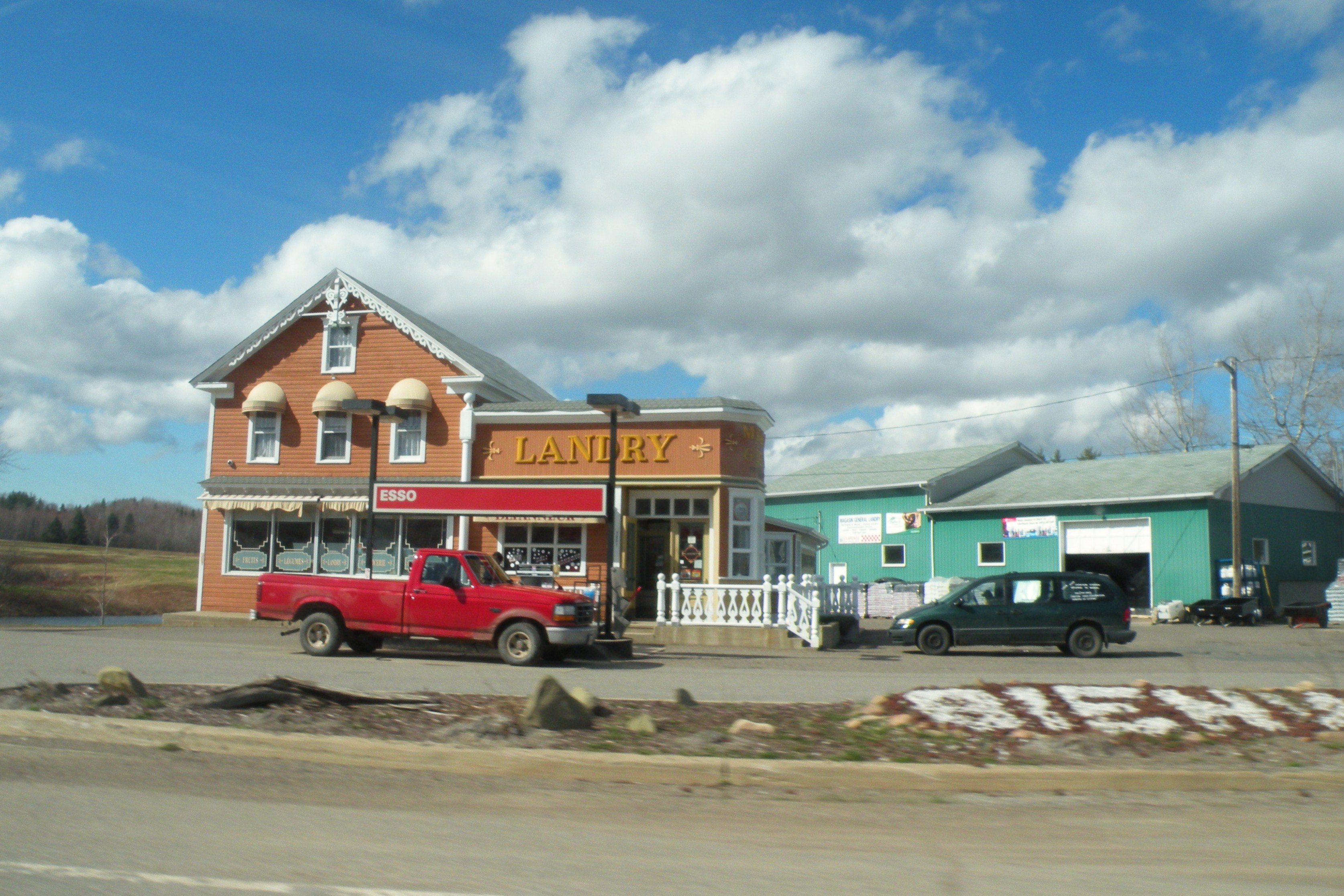 The general store at Pont-Landry, New Brunswick, Canada.